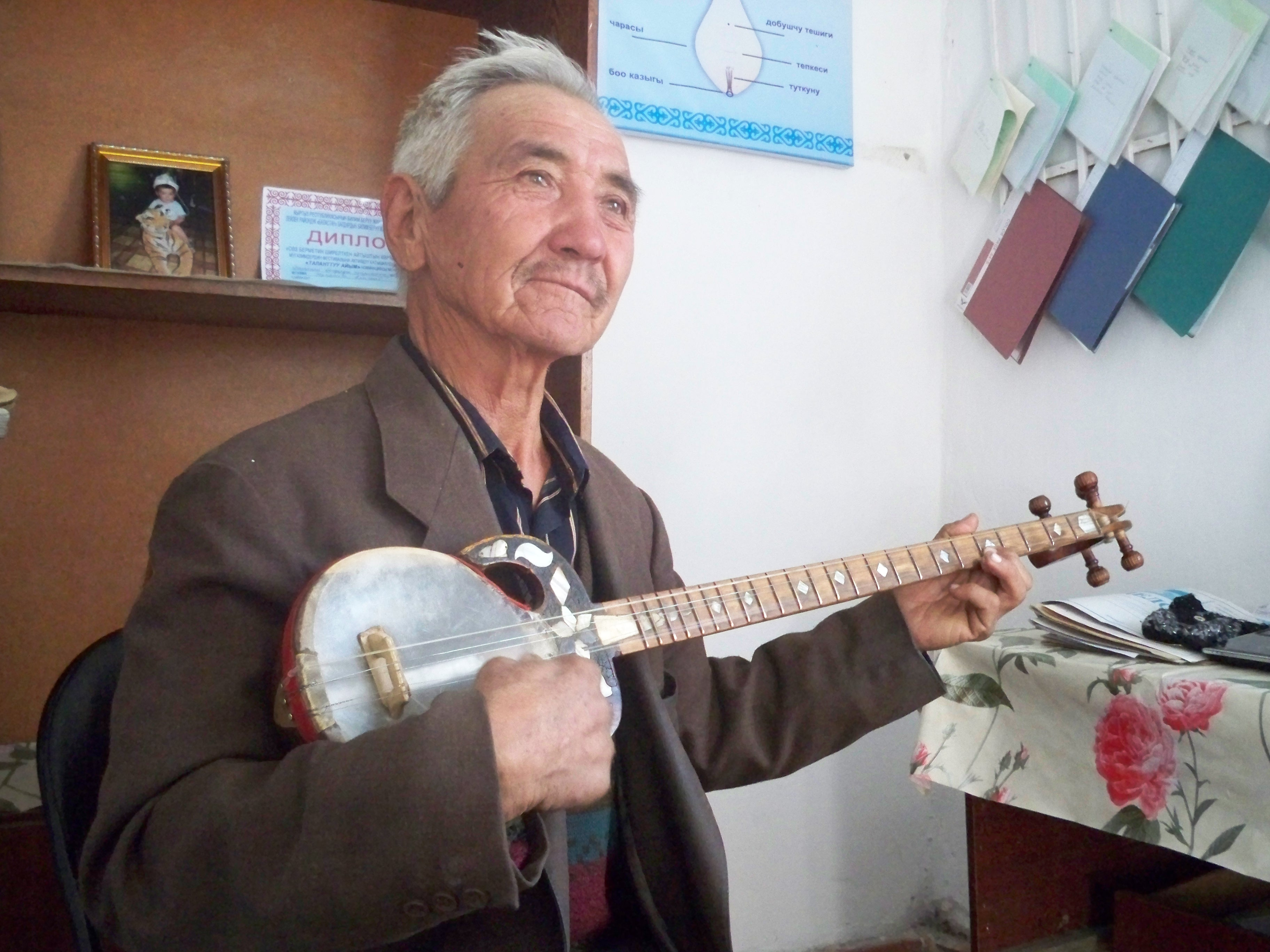 Saydulla Mamatqulov playing the rubab. Mamatqulov is a musician, singer, songwriter, multi-instrumentalist, and a composer of traditional Uzbek music. He grew up in Tajikistan but now lives in Kyrgyzstan.